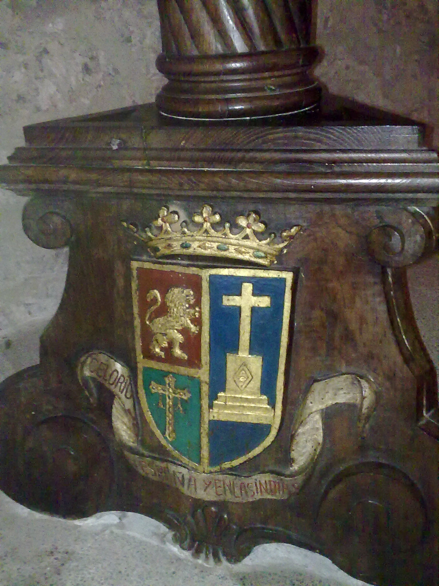 Original sign of Celorio de Llanes, located on the San Salvador Church